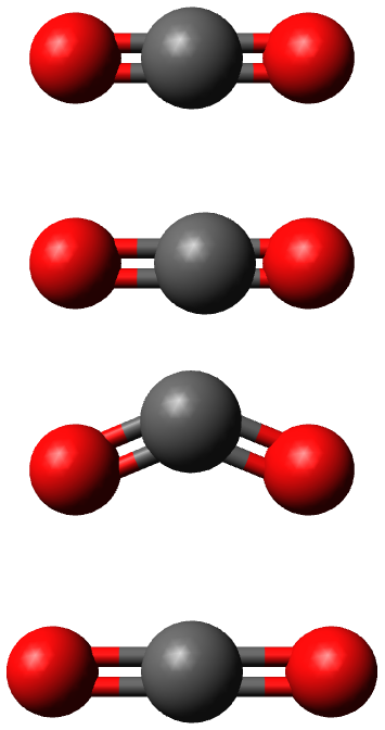 Infrared absorption modes (molecular vibrations) for carbon dioxide, starting from a symmetrical molecule (top). The bottom mode is symmetrical and not detected in an IR spectrum; only asymmetrical stretching and bending produces its characteristic absorption peaks at certain allowed wavelengths.